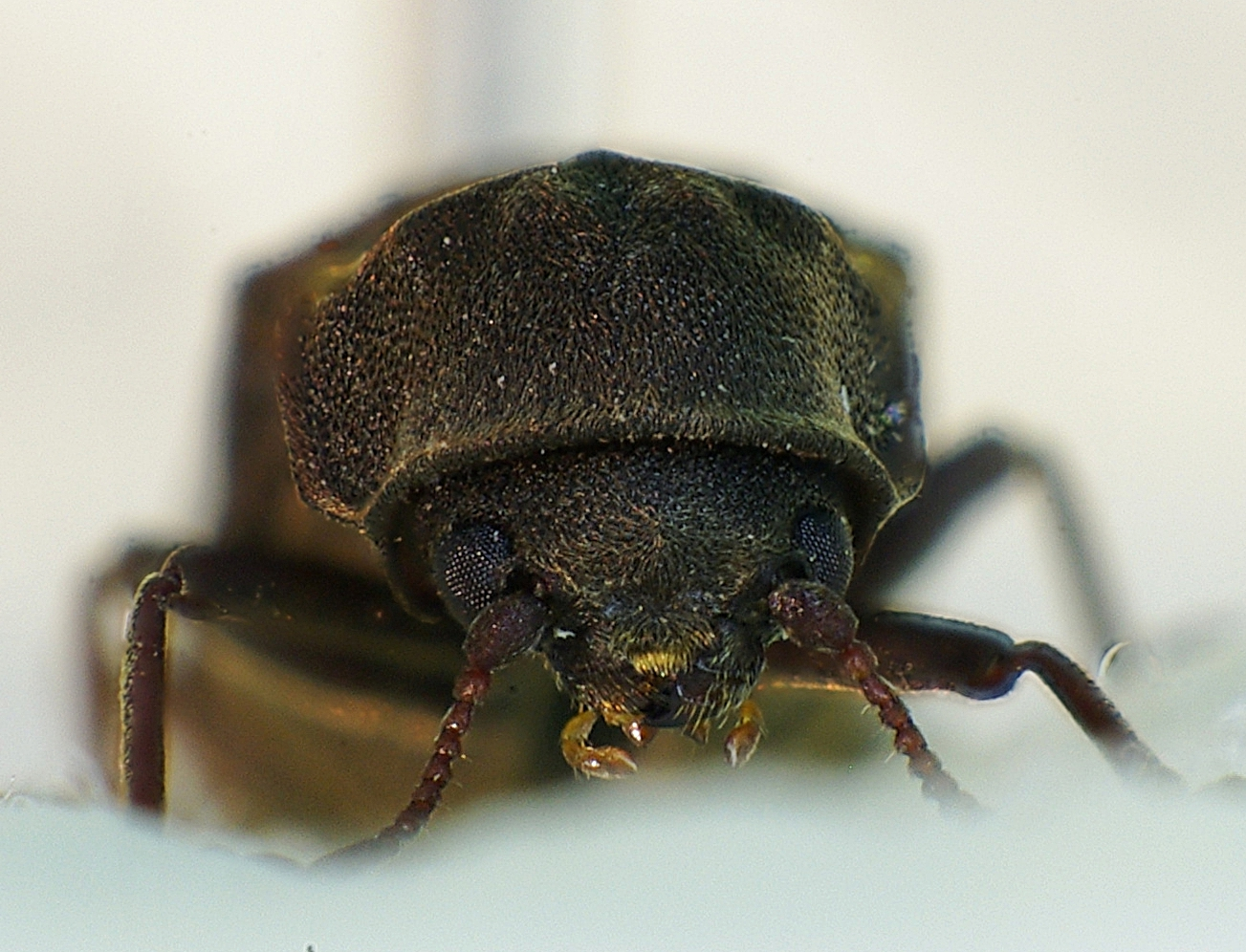 Front of Hadrobregmus pertinax